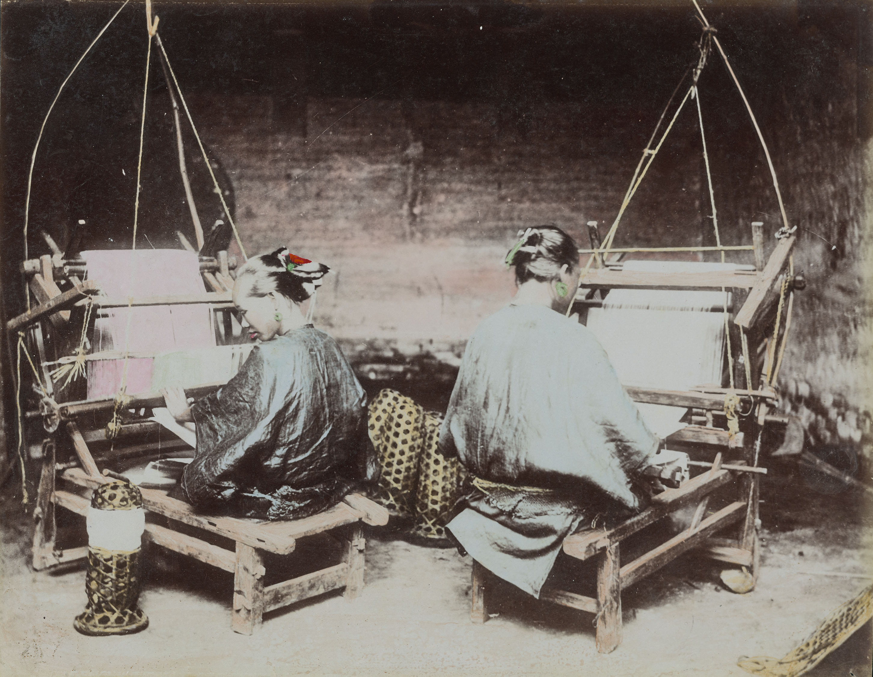 Photograph in Images related to Shanghai and other Chinese cities.